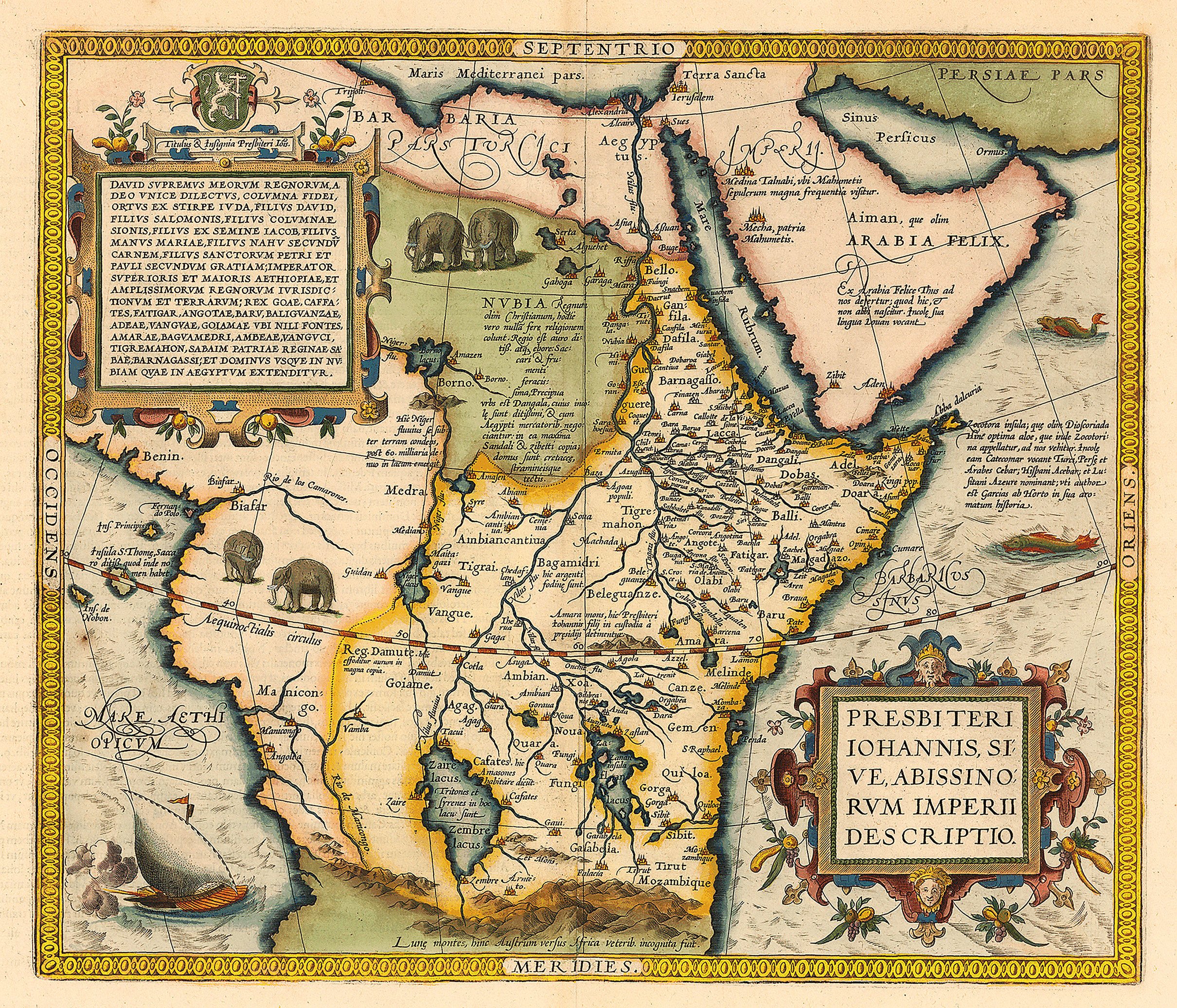 Map of Africa by Abraham Ortelius (1527-1598). Latin title in box: Presbiteri Johannis, sive, Abissinorum Imperii descriptio ("A Description of the Empire of Prester John, that is to say, of the Abysinians"). Copperplate map, with added colour, 35 x 42 cm. From Theatrum Orbis Terrarium... by Ortelius, Antwerp, [1] The attributed arms of Prester John (A lion rampant facing to the sinister holding in its paws a quasi-Tau cross of full height) are shown at top left abobe the caption: titulus & insignia Presbiteri Jo(hann)is (tinctures not reliable, added differently by later colourists).